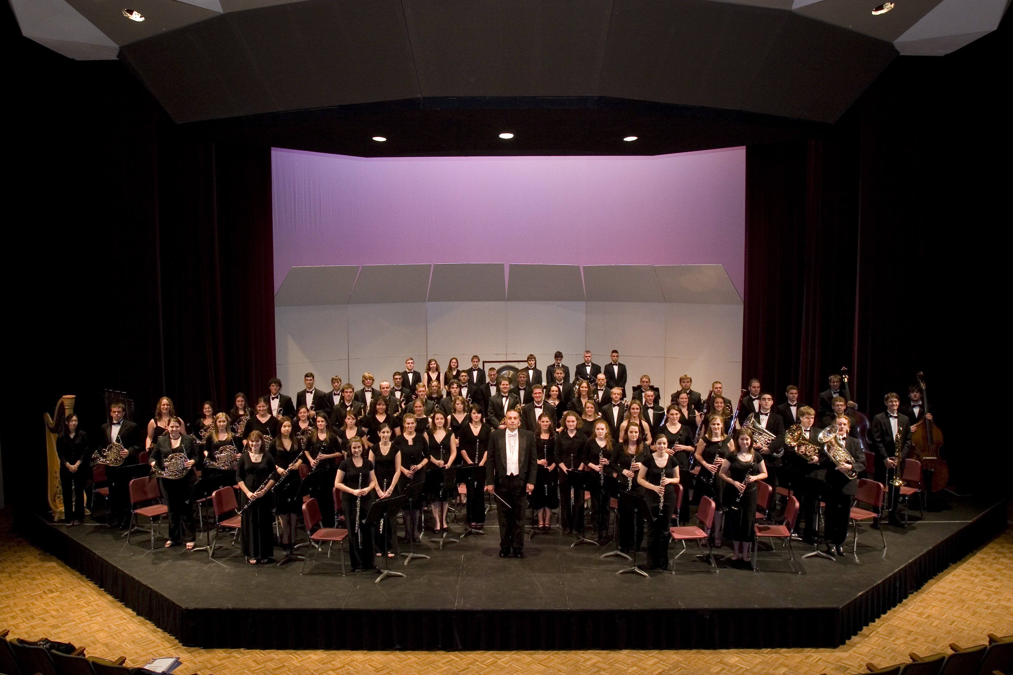 The Texas A&M Wind Symphony, under the direction of Dr. Timothy B. Rhea pose before their concert in October 2006. Location: Rudder Theatre, Texas A&M University